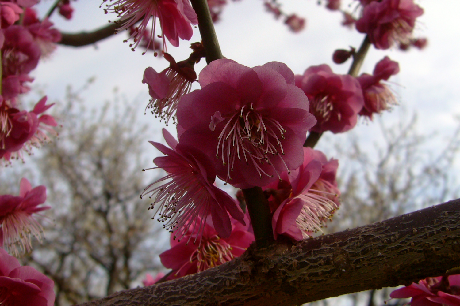 Senri Bairin, Minabe, Wakayama prefecture, Japan